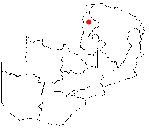 Kawambwa, Zambia Location Map; created with the GIMP. Made by User:Acntx.